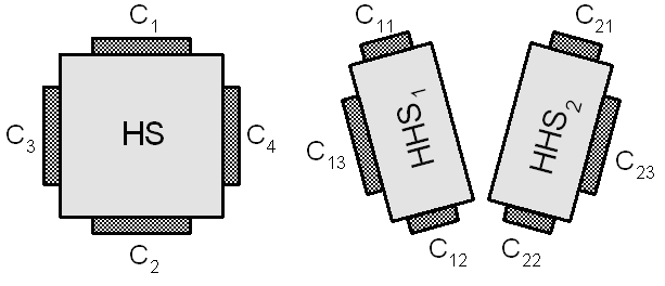 Ordinary Hall sensor HS with two current (C1, C2) and two potential (C3, C4) electrodes (left) and its elementary division into two half-Hall elements HHS1 and HHS2 with electrodes C11, C12, C13, C21, C22, C23 respectively (right)